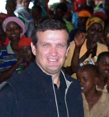 Kenneth Rutherford visits survivors of war-related violence in Burundi, May 2010.